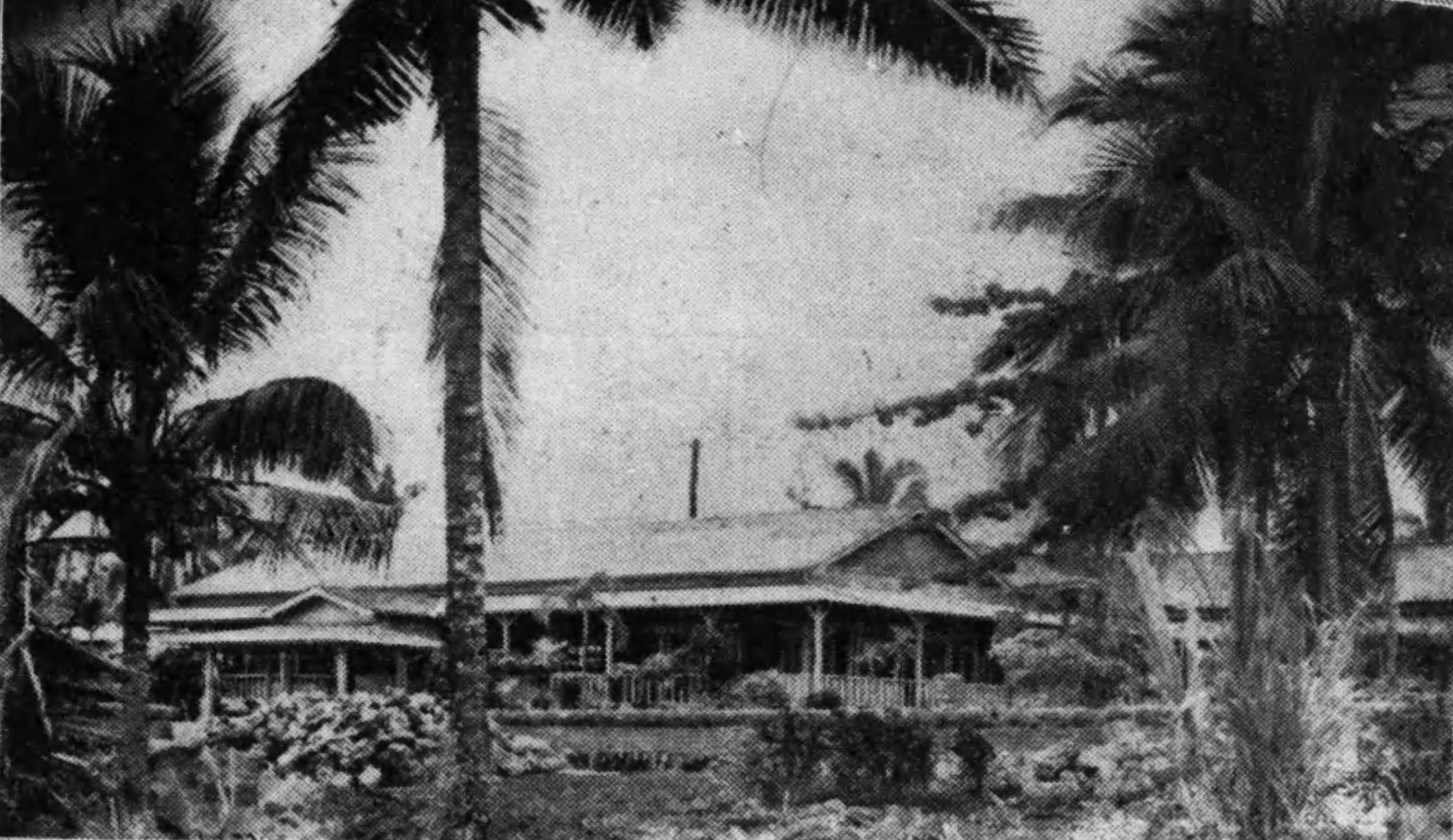 The main office of Nan'yo Takushoku in Koror, Palau.